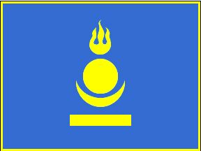 Mongol Empire Flag - yellow flame, sun and cresent on blue rectangle flag. Image made after Nozomi Kariyasu photos made in Mongolian Military Museum in Ulan Bator in June 2008.